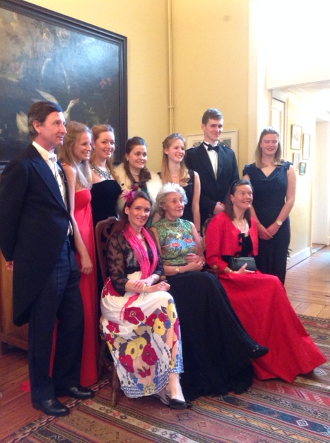 Descendants of guests at the historic Duchess of Richmond Ball, participating in the Bicentennial Ball in 2015. (Count and Countess of Oultremont, Lord Strathclyde, Colonel Gleeson)